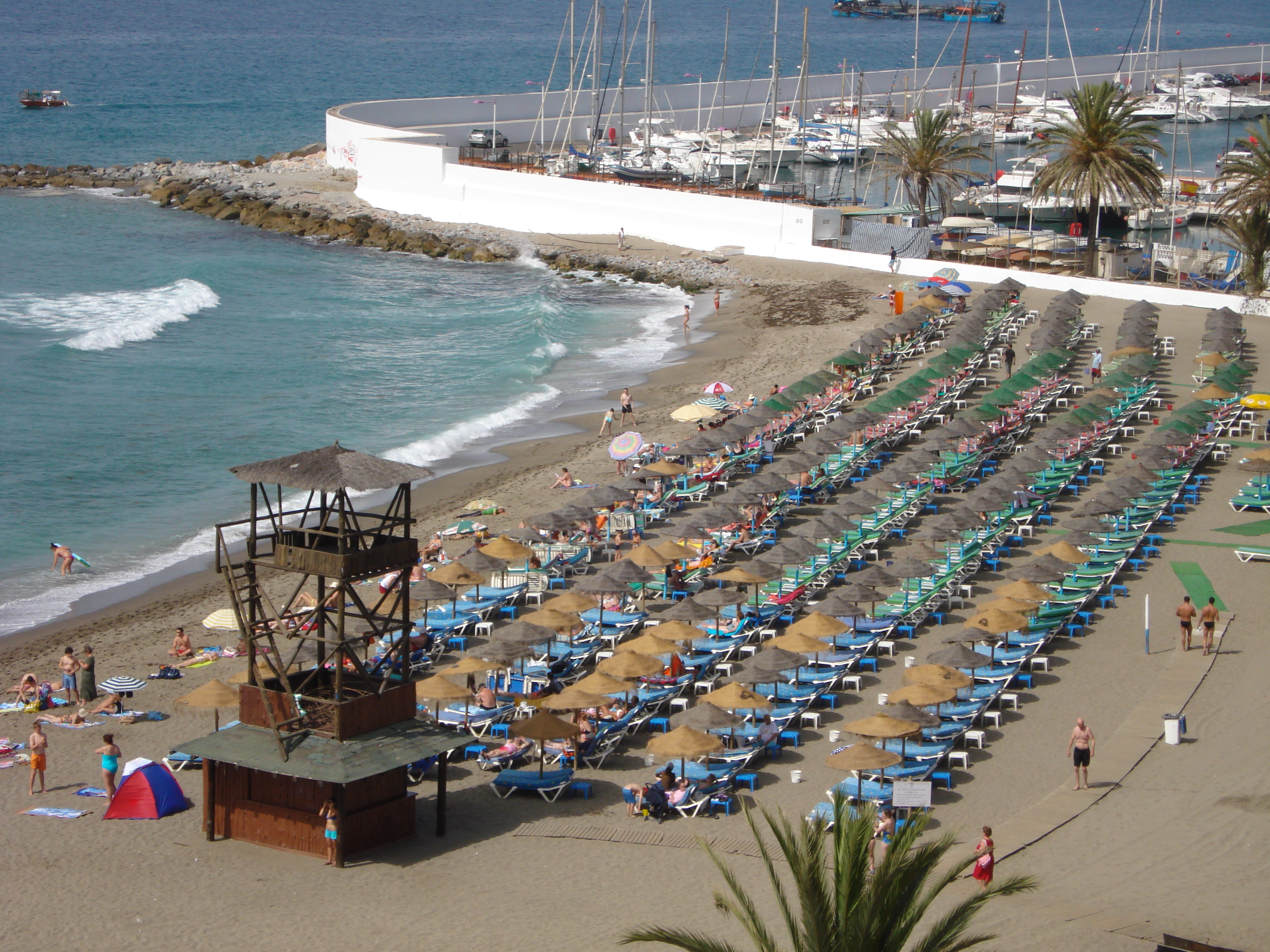 Beach of MarbellaEesti: Marbella rand